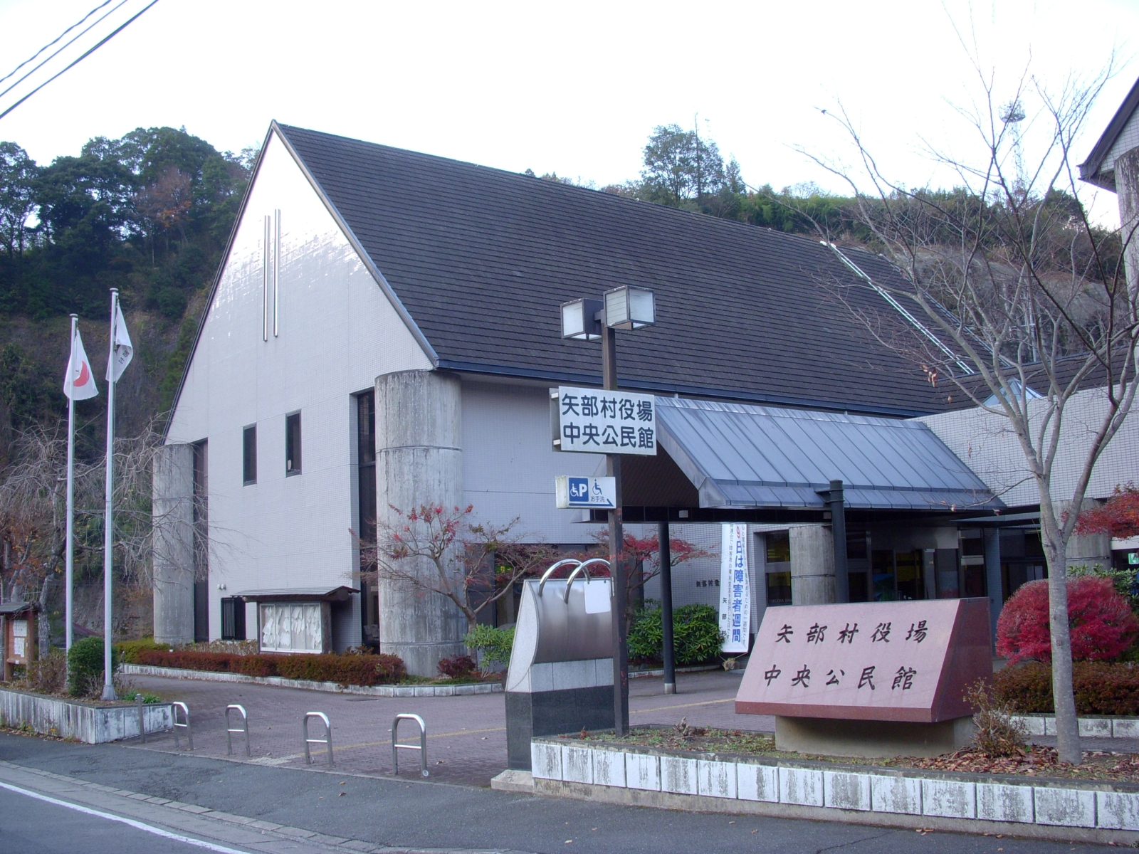 Yame city office Yabe branch (Former Yabe Village Office) in Fukuoka Prefecture, Japan